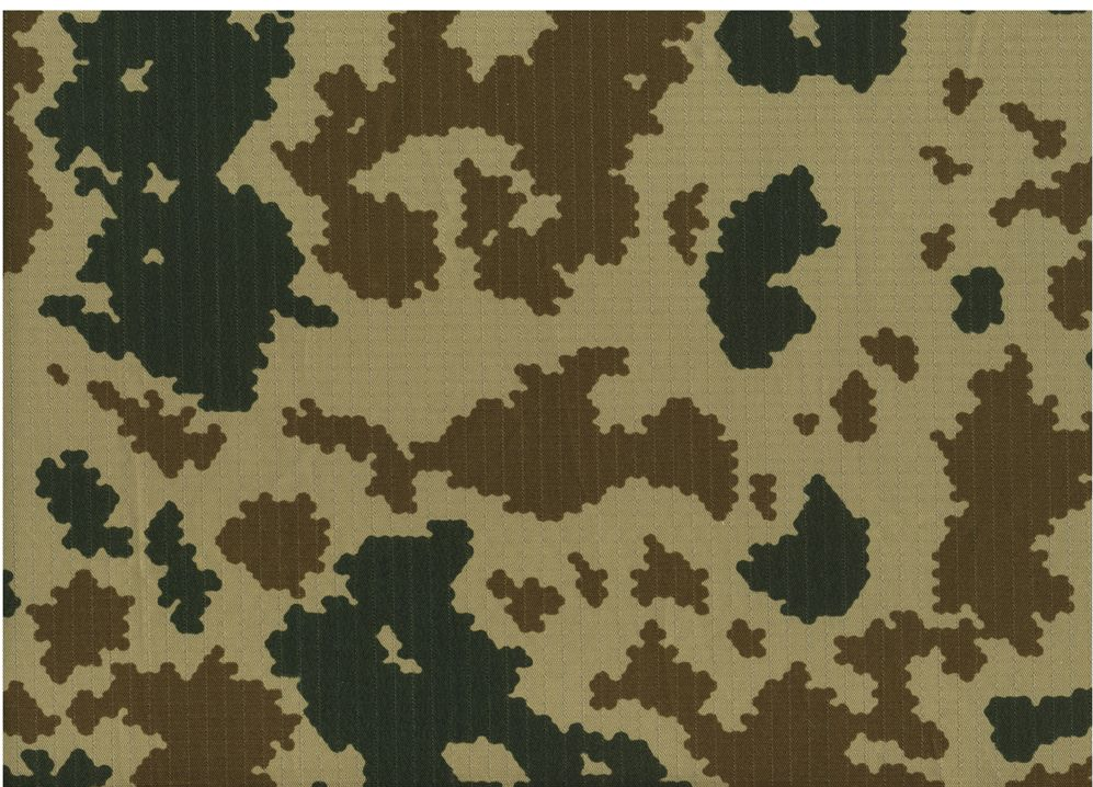 Finnish m/04 desert camouflage pattern